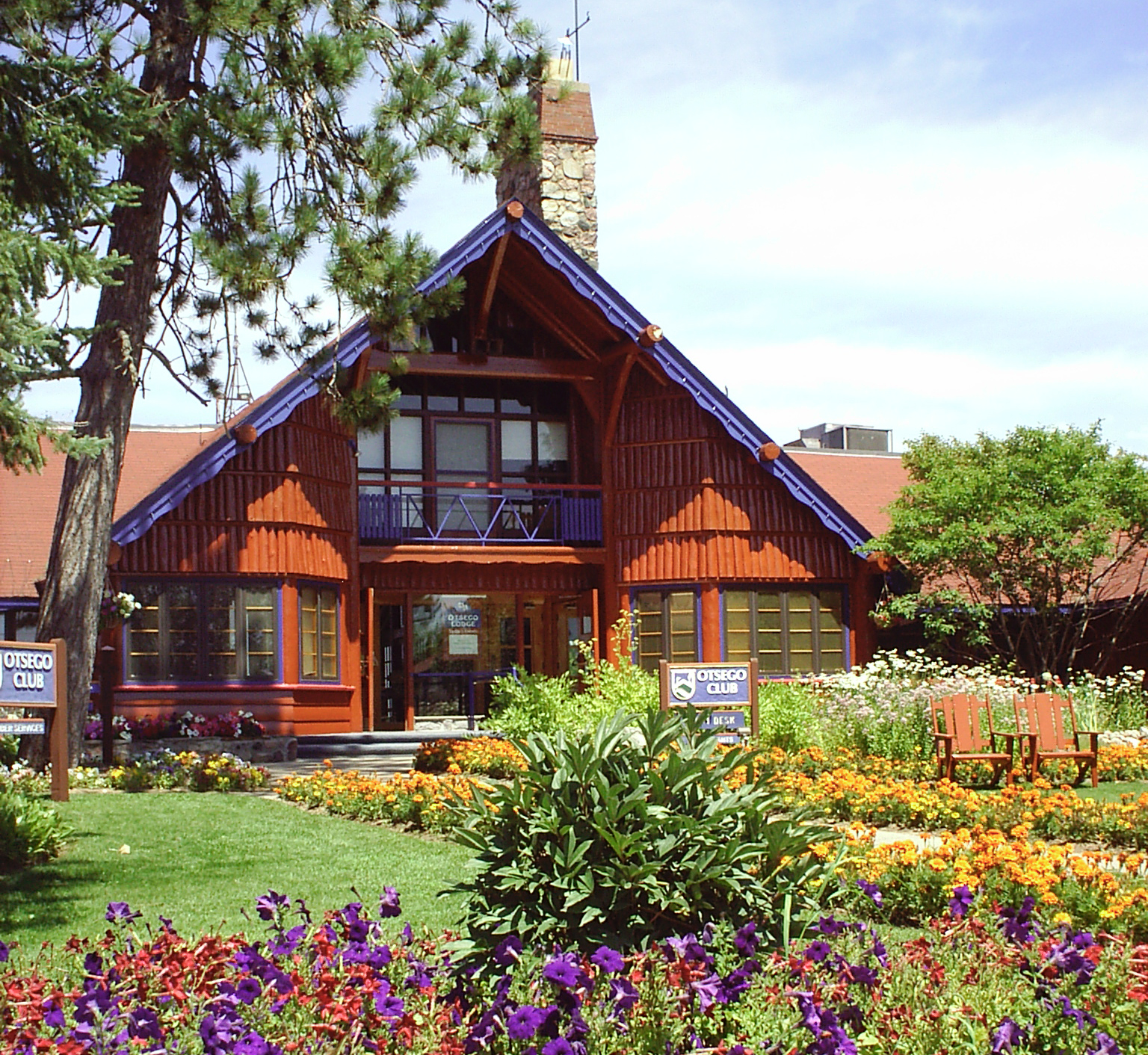 Otsego Club Main Lodge